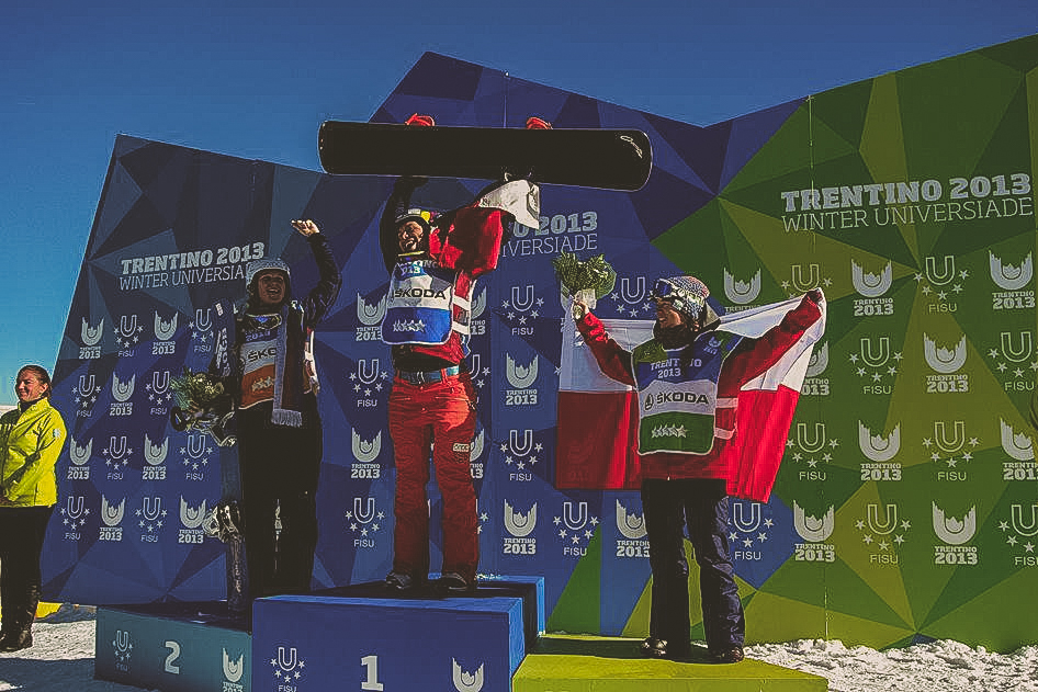 Podium Trentino 2013